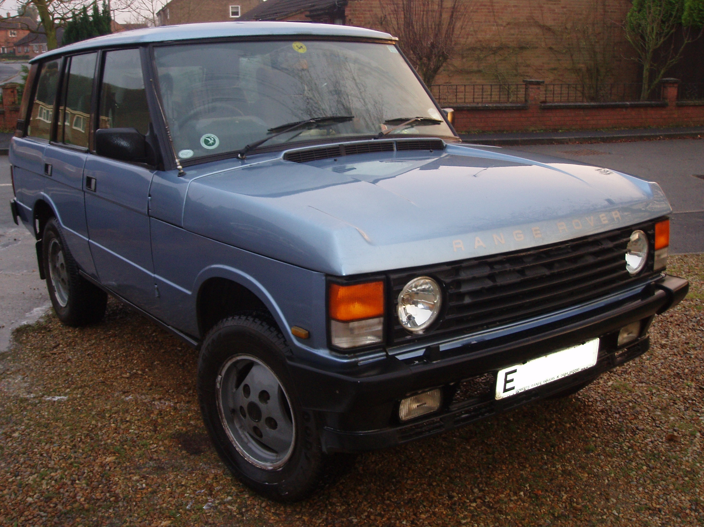 A 1987 (post-facelift, 3.5 V8) Range Rover.